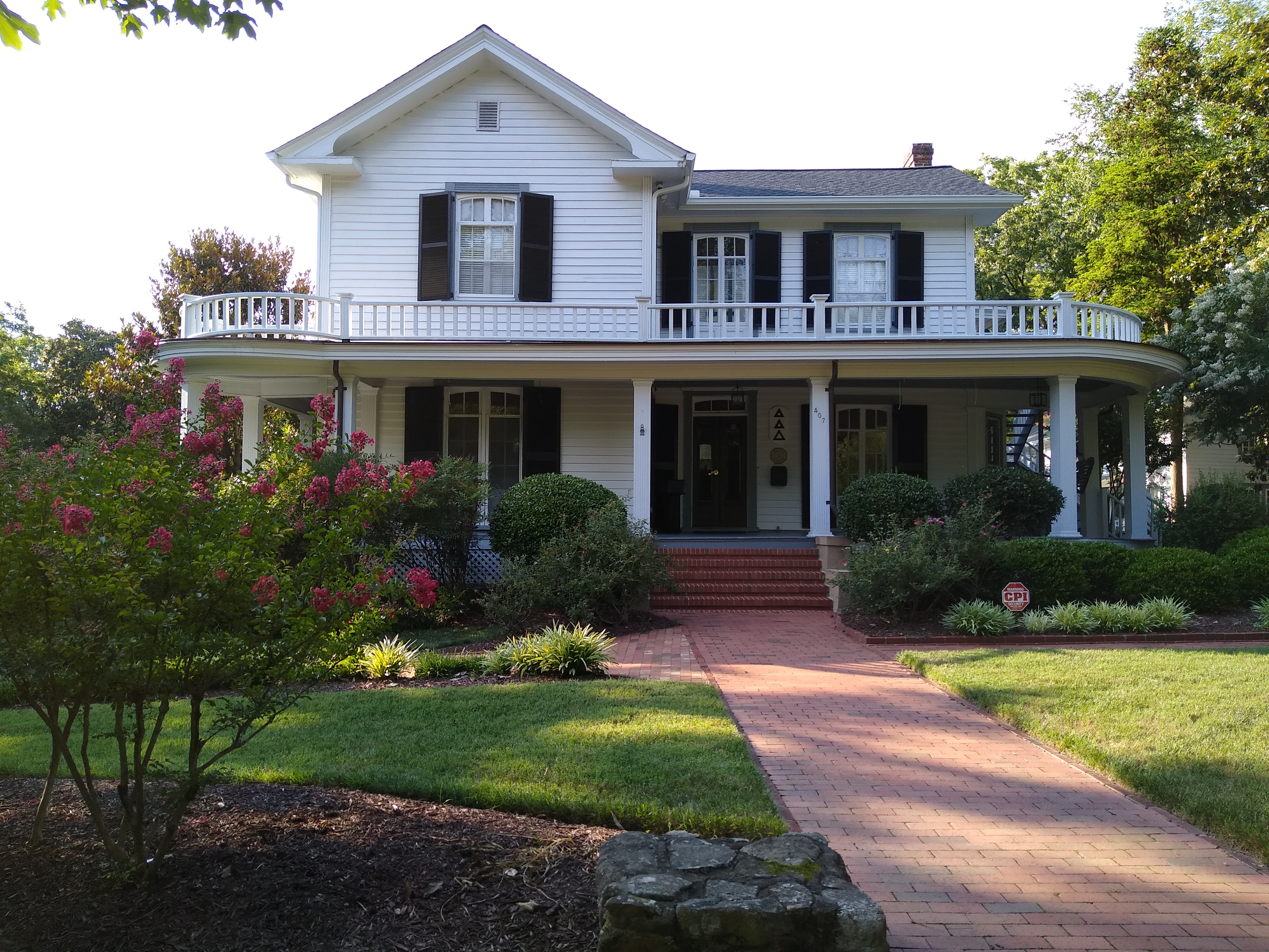 Delta Delta Delta (Tri Delta) at the University of North Carolina at Chapel Hill. 407 E Franklin St.